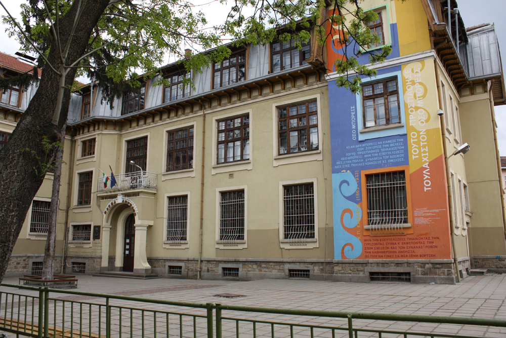 Vasil Aprilov School, 40 Shipka Street, Sofia, Bulgaria